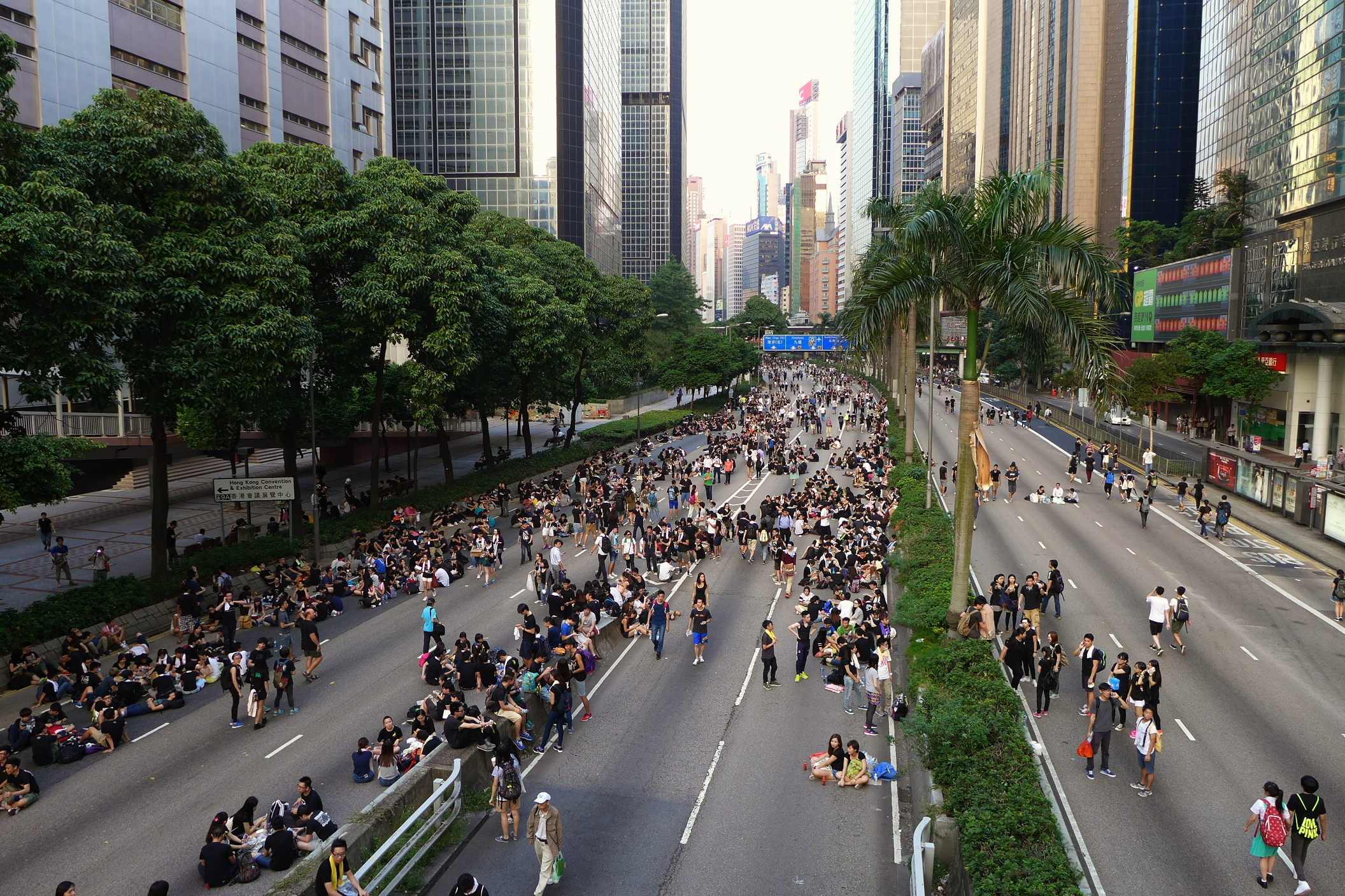 Gloucester Road during Umbrella Movement 告士打道